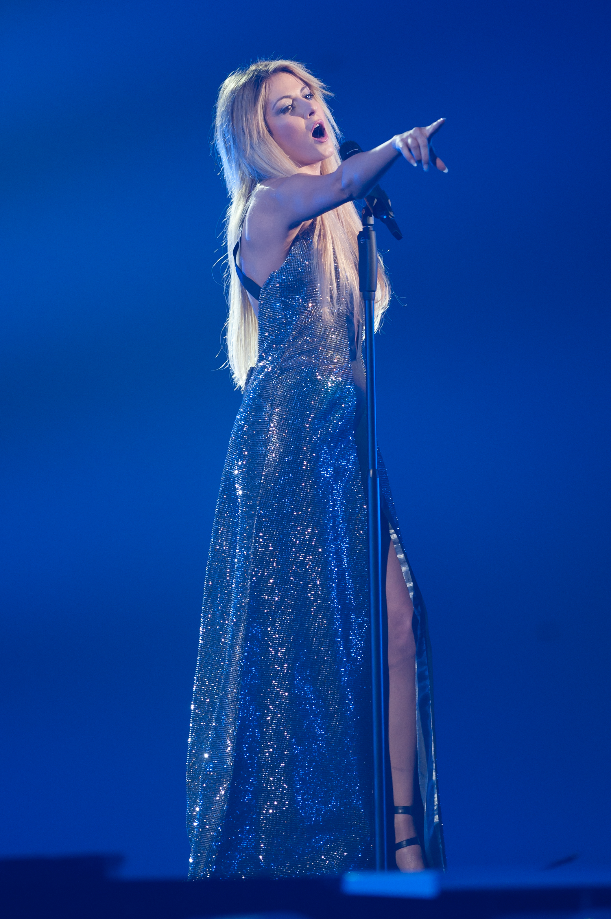 Eurovision Song Contest Vienna 2015: Maria Elena Kyriakou